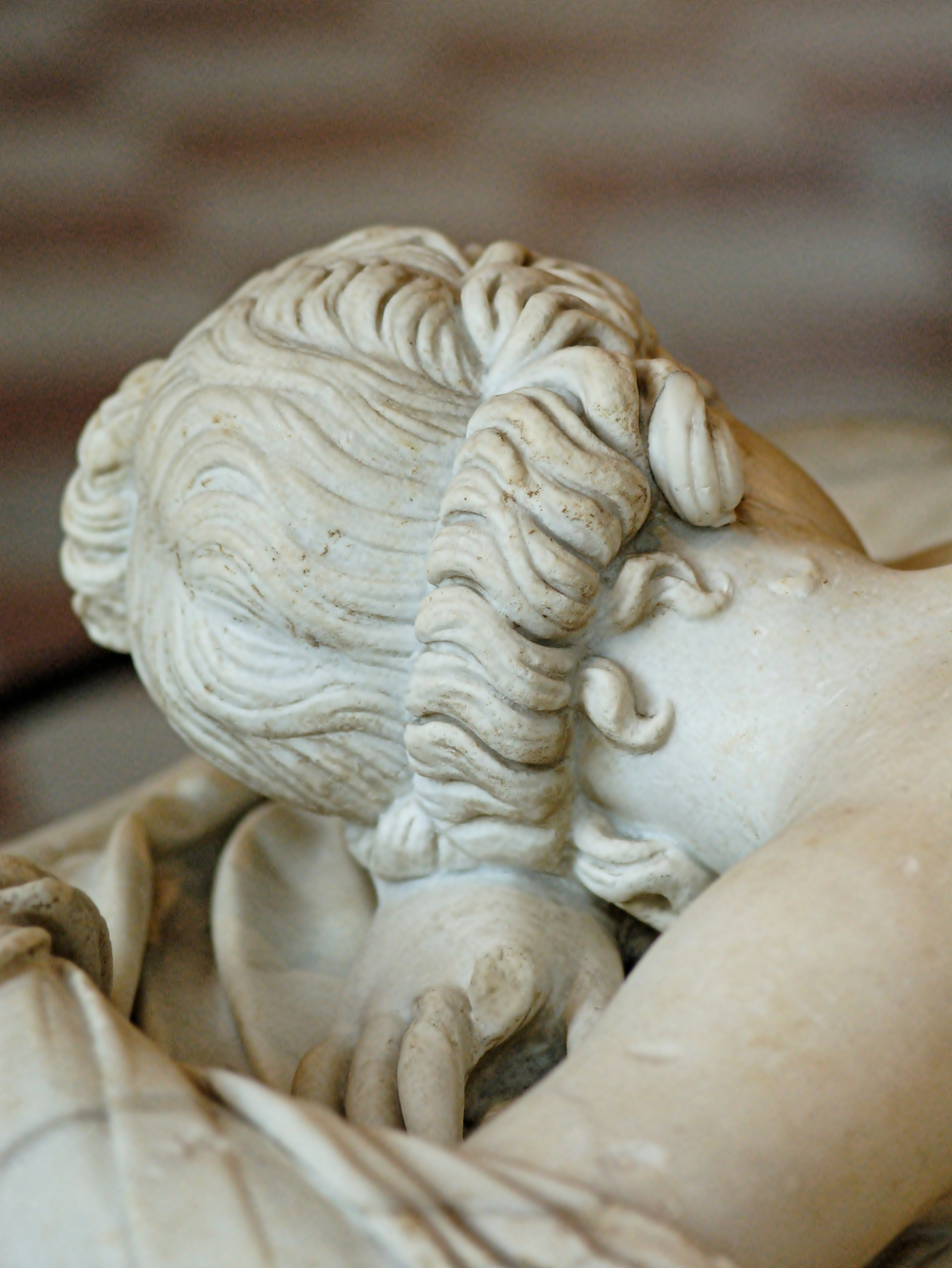 Sleeping Hermaphroditus, detail of the nape of the neck. Hermaphroditus: Greek marble, Roman copy of the 2nd century CE after a Hellenistic original of the 2nd century BC, restored in 1619 by David Larique; mattress: Carrara marble, made by Gianlorenzo Bernini in 1619 on Cardinal Borghese's request.